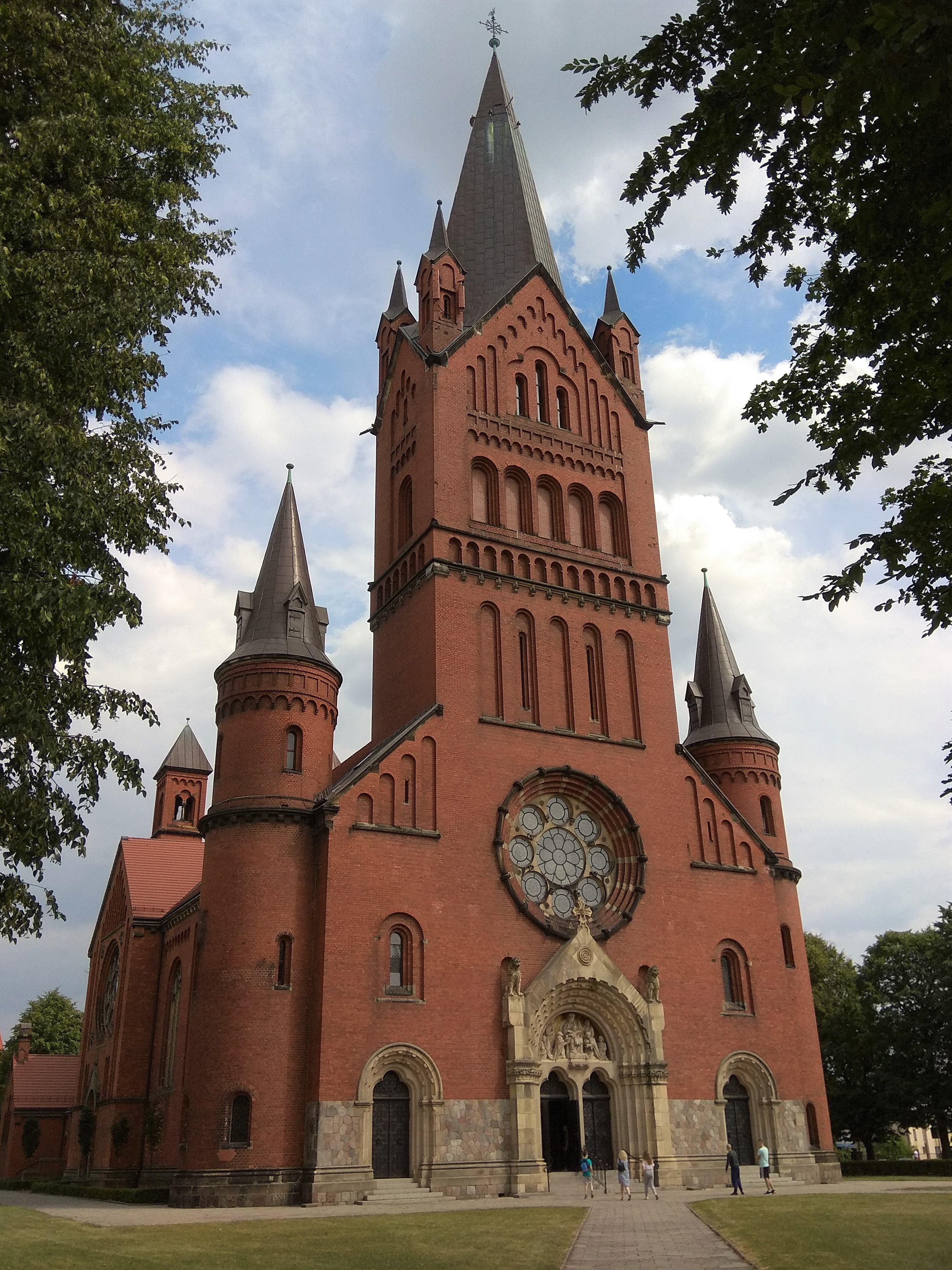 Inowrocław, Church of the Annunciation of the Blessed Virgin Mary in Inowrocław.